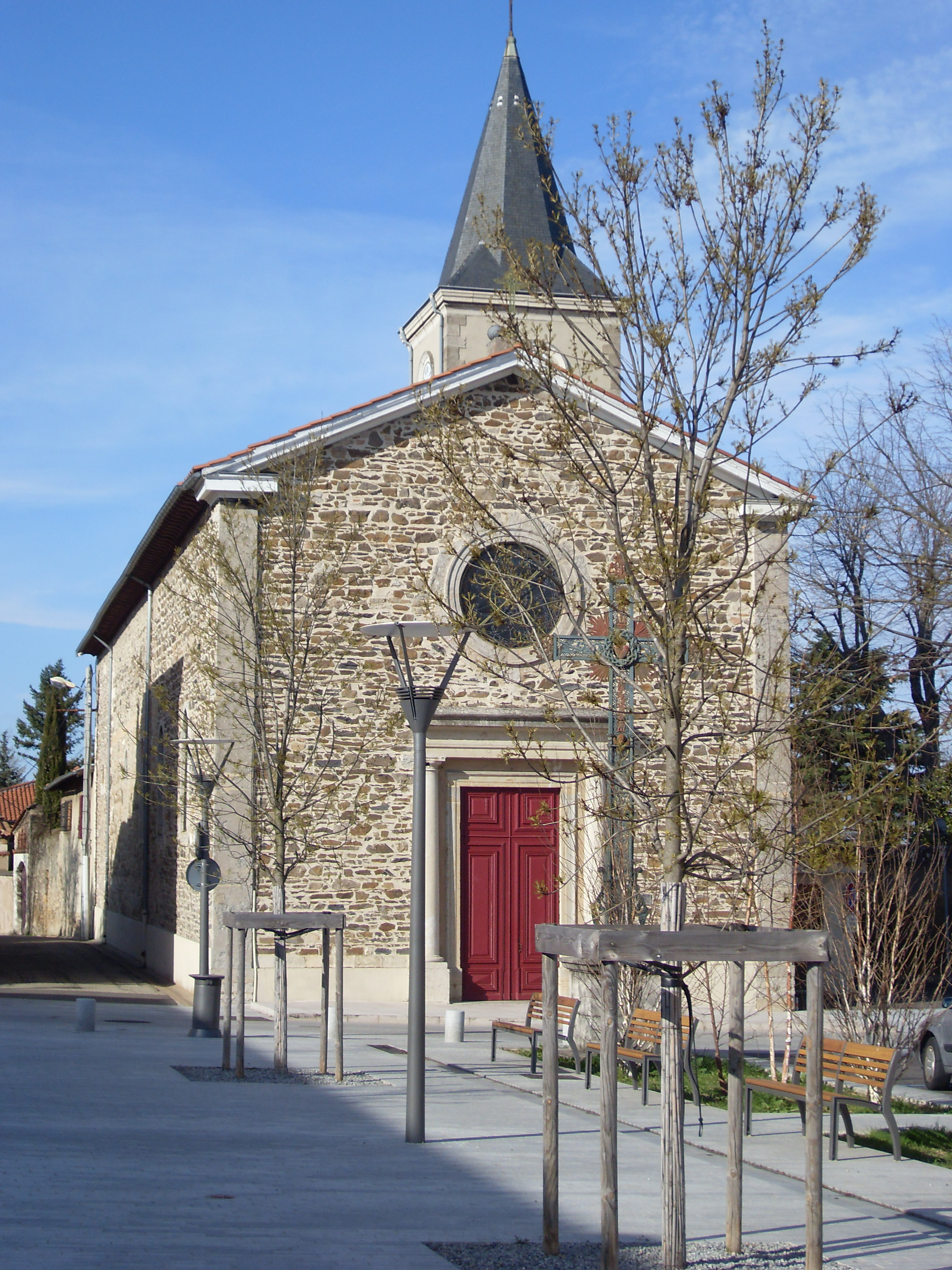 The Saint-Roch church in Francheville-le-Haut